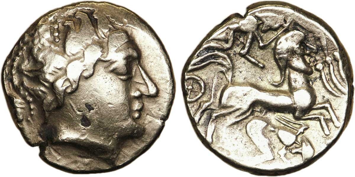 Statère d’électrum “aux aigrettes” frappé par les Andécaves (région d'Angers) Date : Ier siècle avant J.-C. Description revers : Cheval androcéphale galopant à droite, conduit par un aurige étendant la main gauche ; vexillum devant le cheval et un personnage ailé replié sur lui-même entre les jambes du cheval . Description avers : Tête à droite, la chevelure en deux rangées de mèches ; la première en bandeau sur la tempe et la seconde remontant et encadrant le motif en arc de cercles